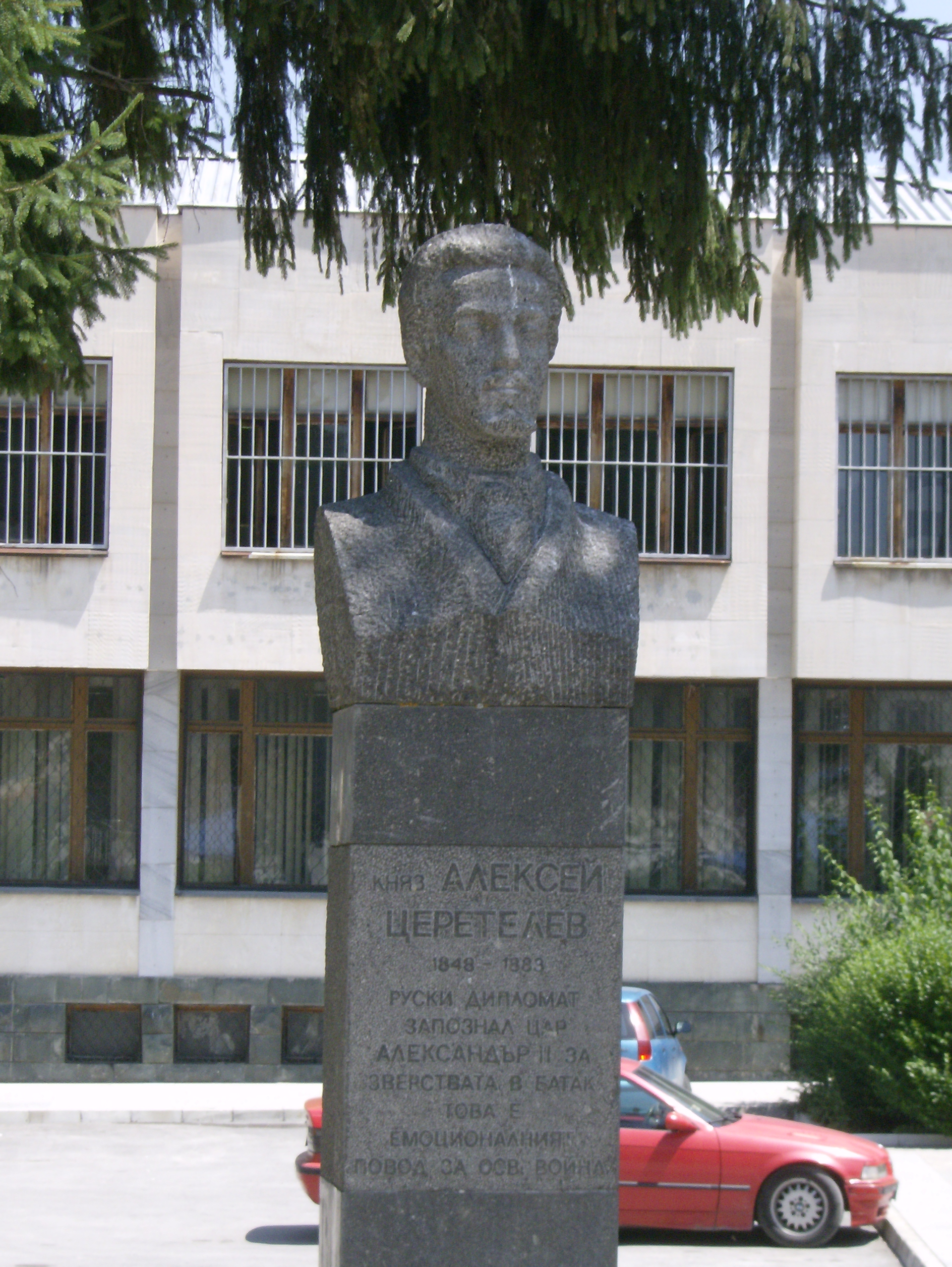 Bust of prince Alexey Tseretelev (Tsereteli) in Batak, Bulgaria